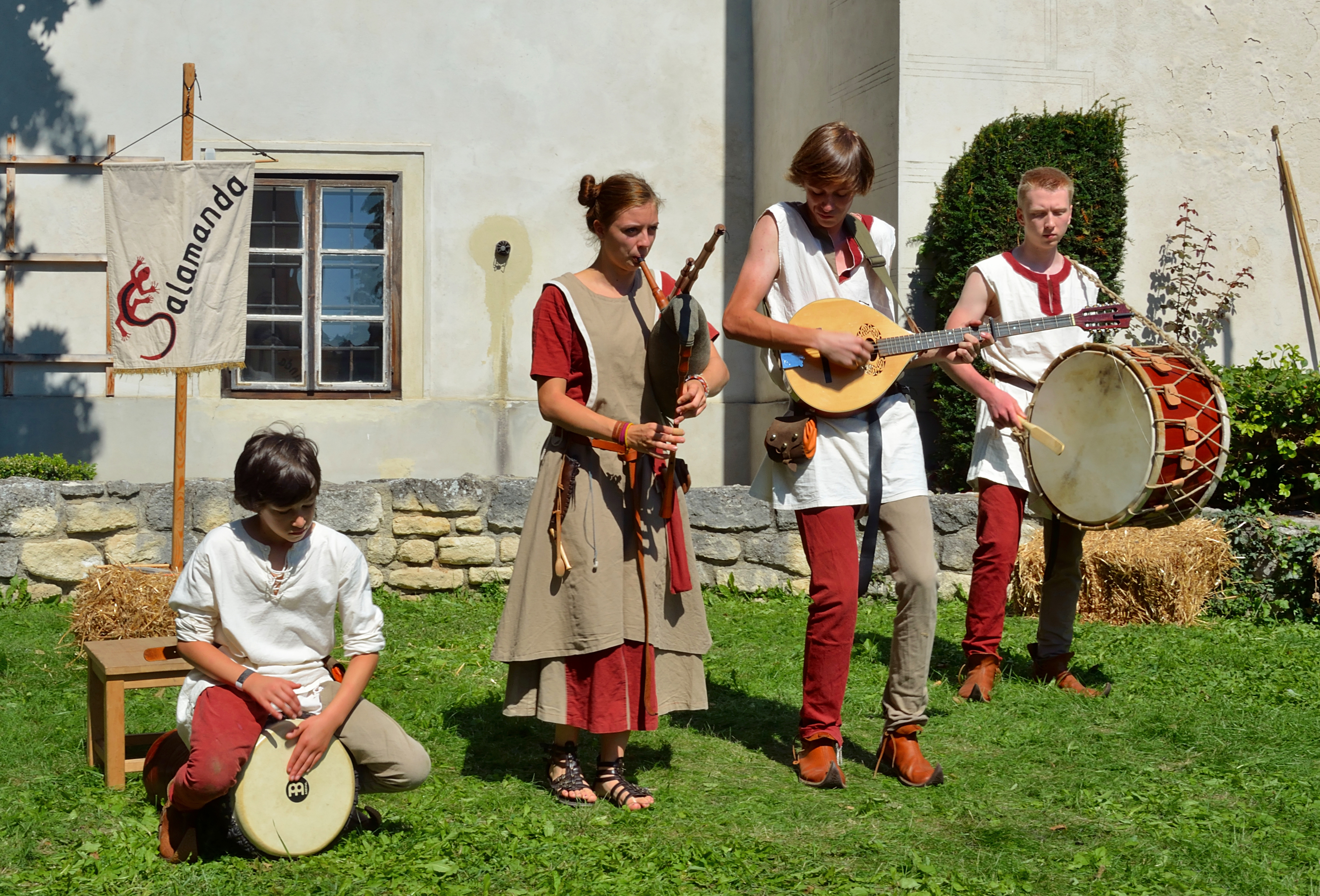 Medivial festival at Eggenburg, Lower Austria, 2013, September 7th-8th. Musica Salamanda: Jeremy, Angela, Alexander Matthias